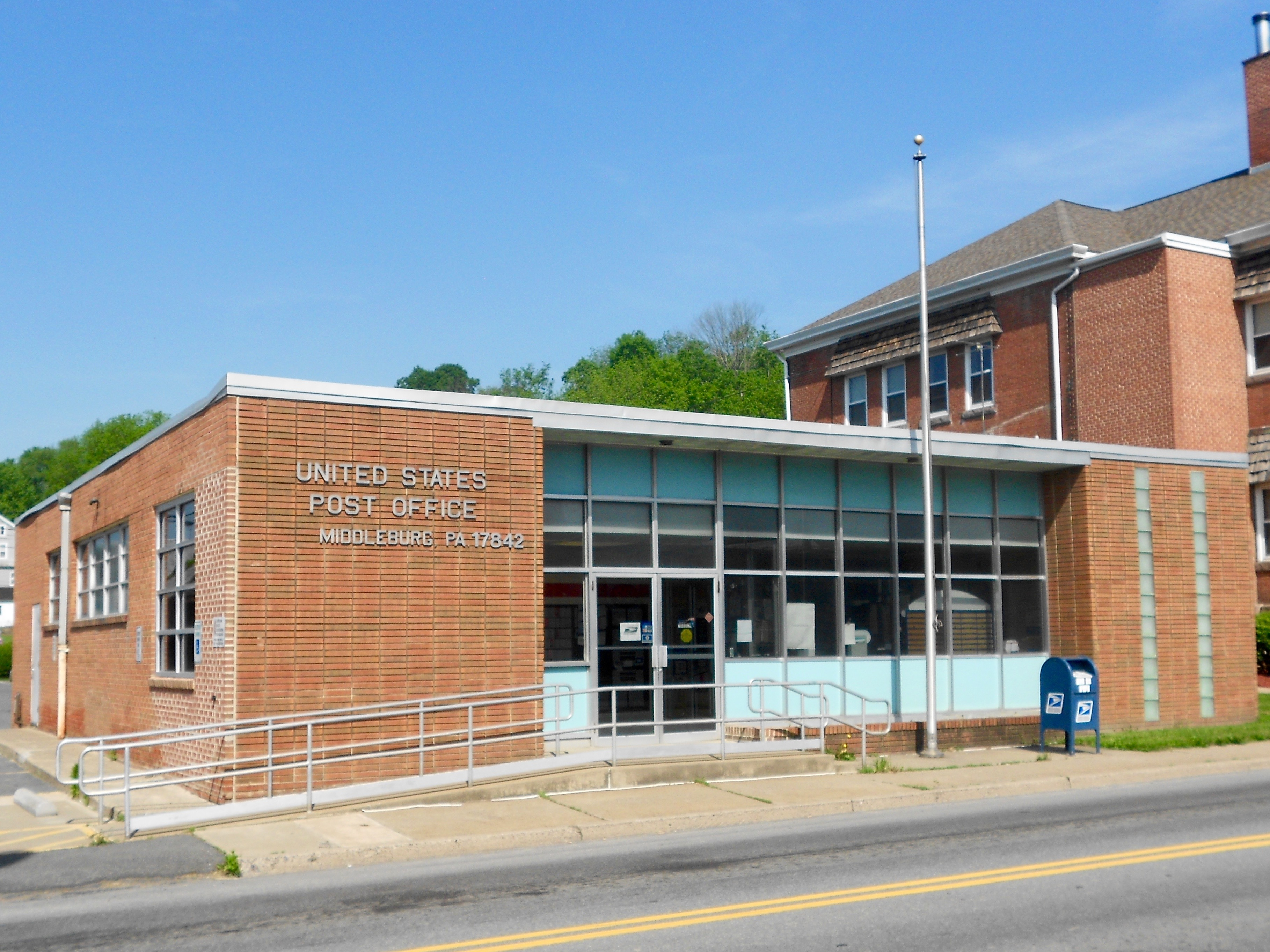 United States Post Office in Middleburg, Pennsylvania zip code 17842